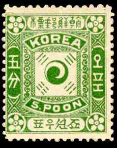 5 poon (fun; bun; 분/分) postage stamp from the Kingdom of Joseon (Korea)